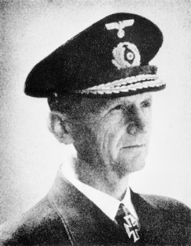 Nazi Personalities- Grossadmiral Karl Doenitz (1891-1984) Head and shoulders portrait of Vice Admiral Karl Doenitz, flag officer in charge of German U-boats (BdU) from 1935 to 1943 and Commander in Chief of the German Navy from 1943 to 1945.